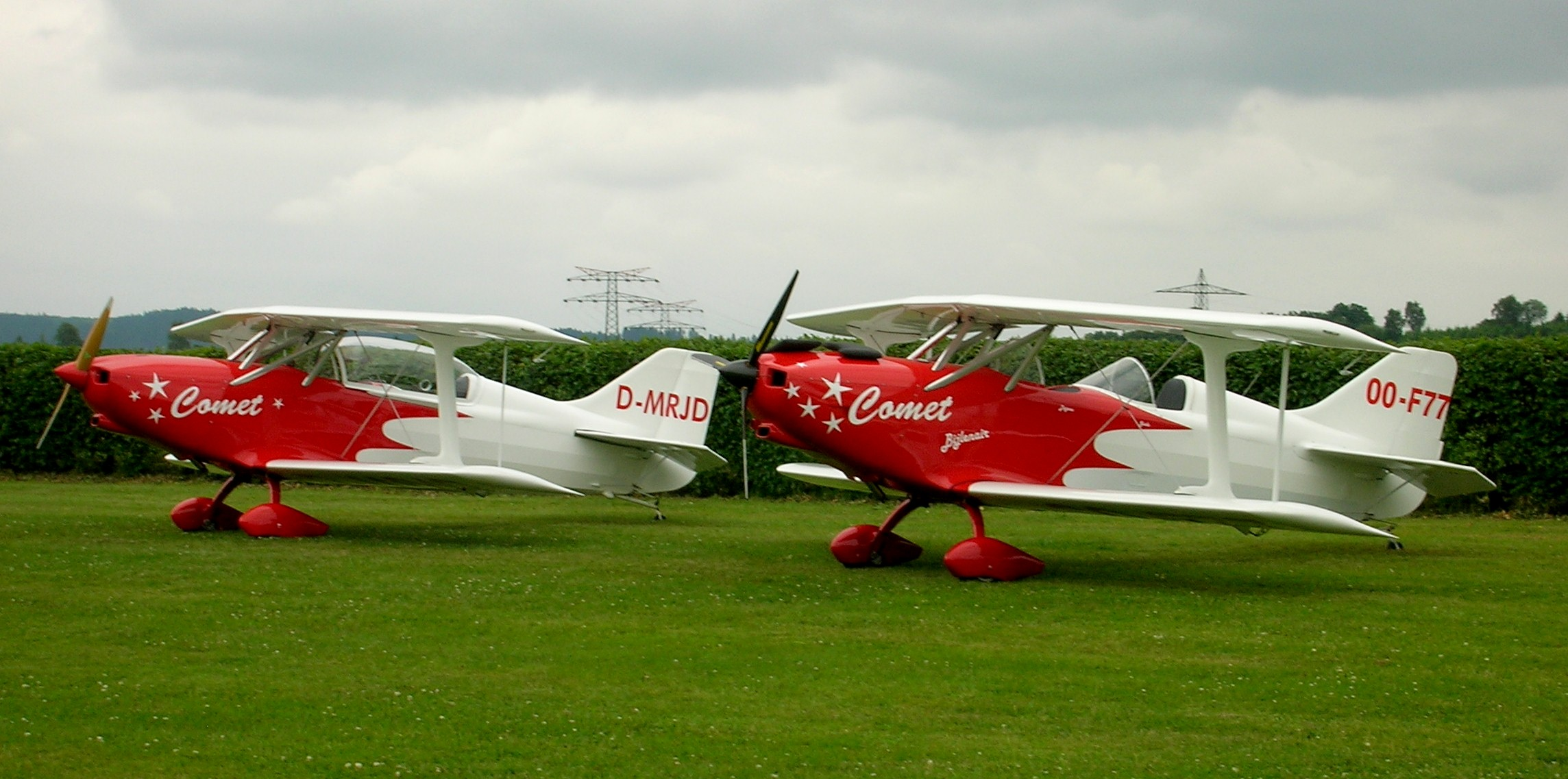 Two B&F FK 12 Comet with different airshields. Location: special Airfield Schmallenberg-Rennefeld